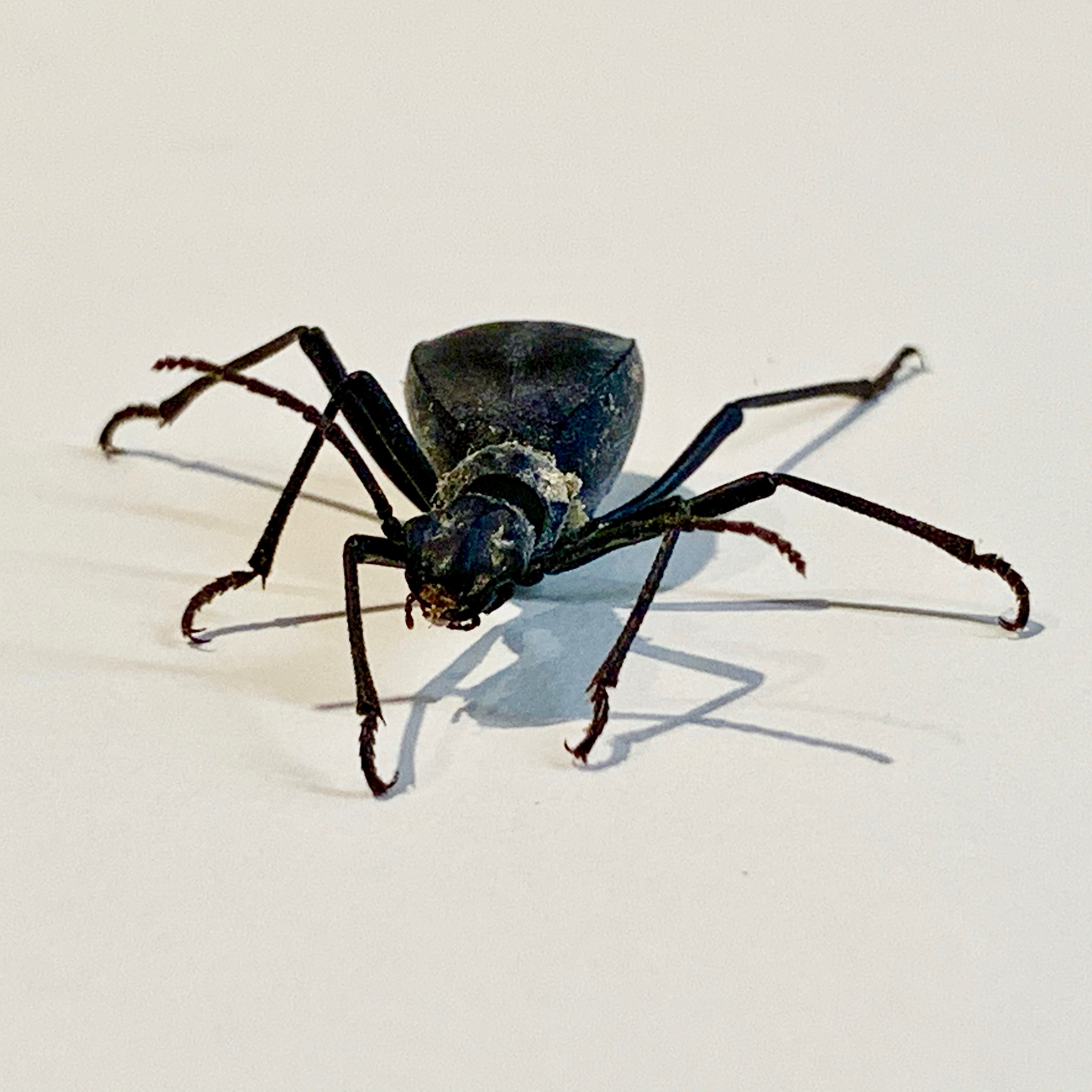 Elenophorus collaris